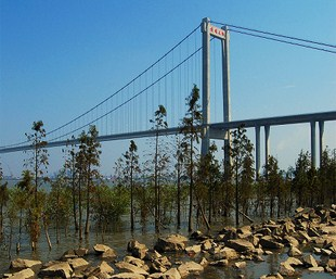 The Huangpu Bridge in China. This version has been modified from the original. It has been cropped and the contrast, brightness, tint, intensity and color balance has been adjusted.